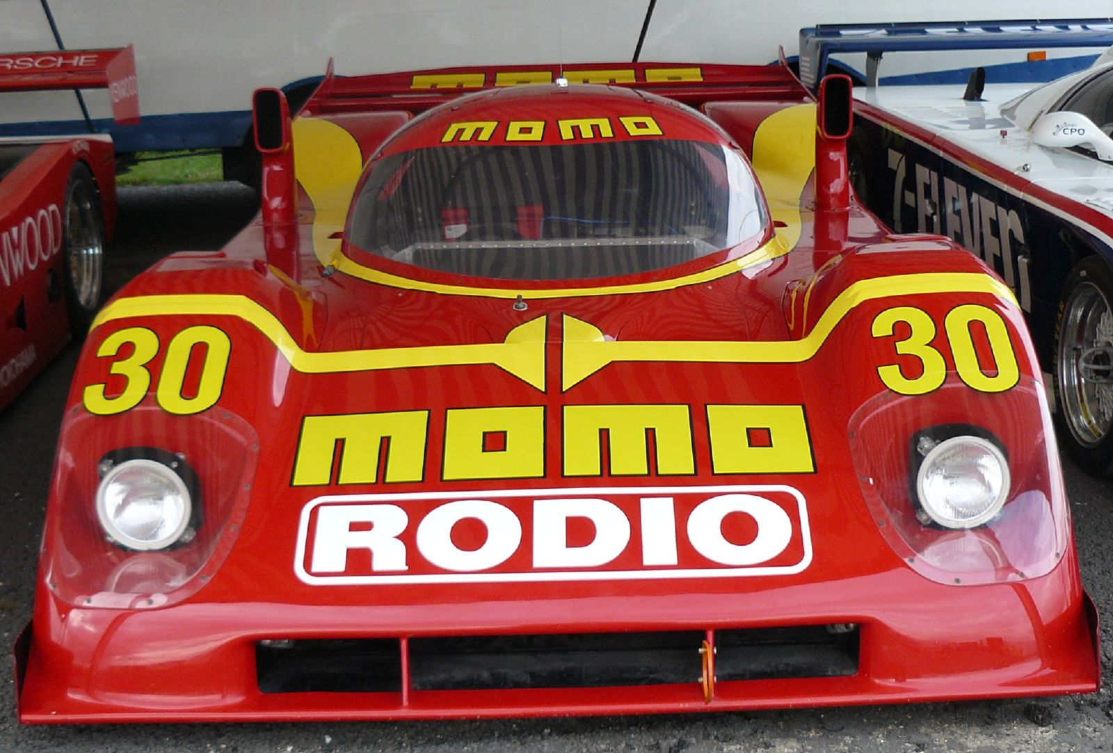 A Nissan NPT-90 at the Silverstone Classic